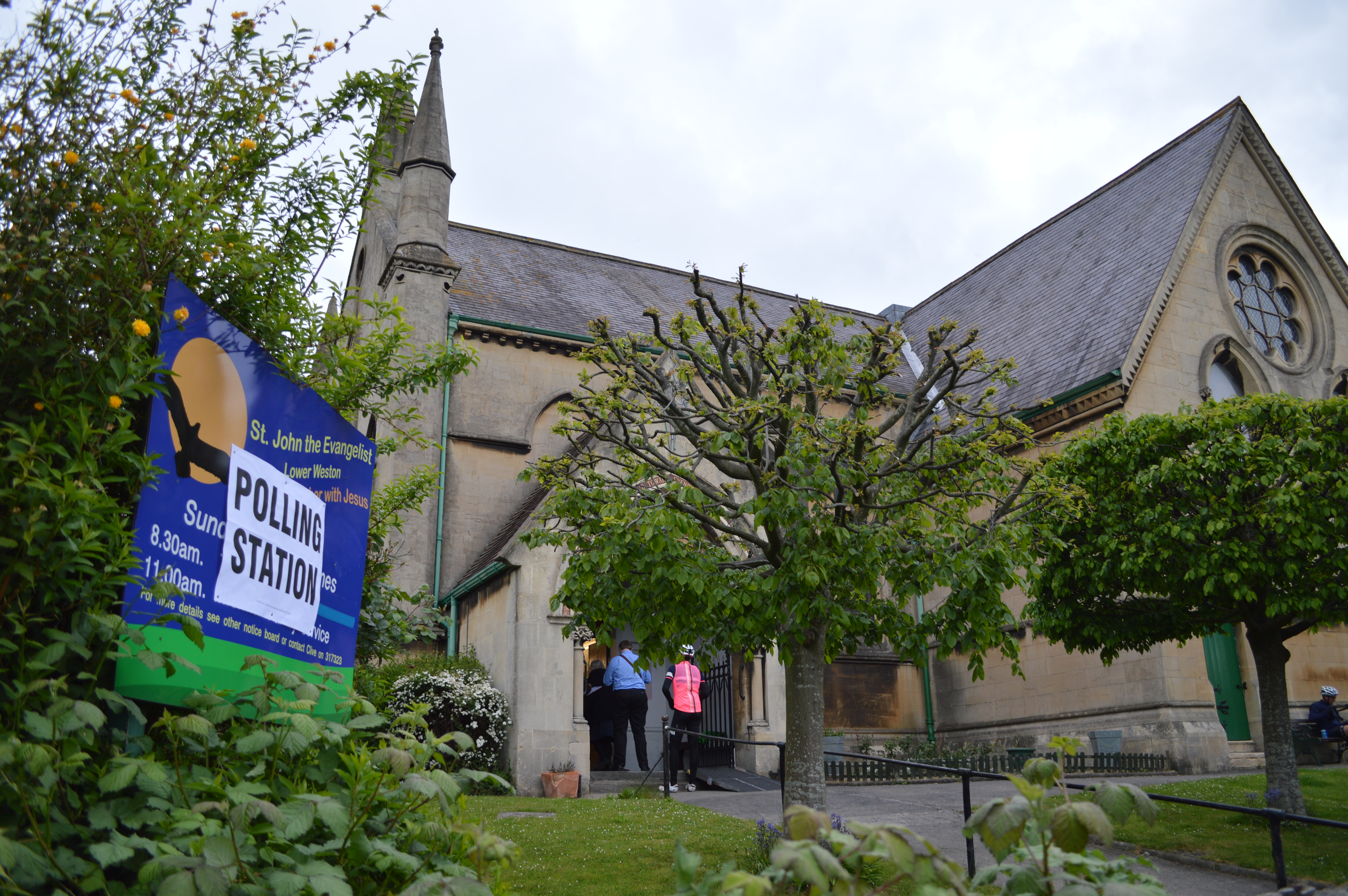 Parish church of St John the Evangelist, Upper Bristol Road, Lower Weston, Bath, Somerset, seen from the south on 7 May 2015. It was General Election Day and the church was a polling station for the 2015 General Election and unitary council election.